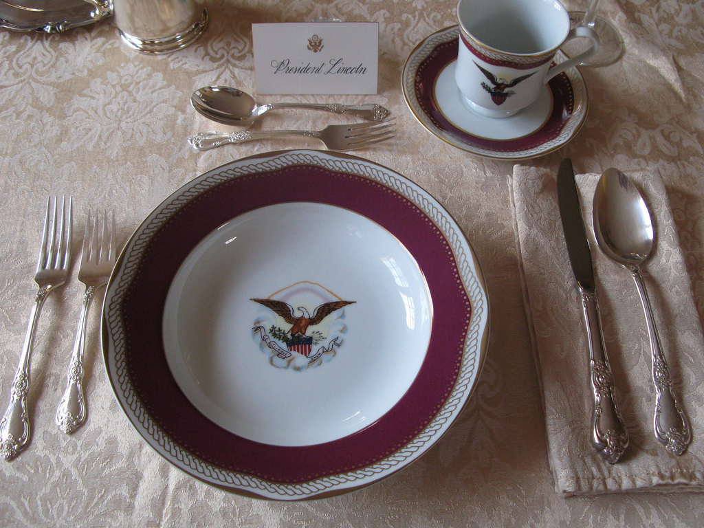 This place setting is my own recreation of a place setting used by President Lincoln using my own family heirlooms and authentically-recreated White House china used during the administration of President Abraham Lincoln. As background, Mary Todd Lincoln was renowned for her enjoyment of shopping, thus she selected the Lincoln White House china shortly after her husband's inauguration. An elegant French design, the Lincoln china combines the American eagle with various decorations in a brilliant color called "solferino". This purple-red hue was invented by the French in 1859 and was very popular among the fashionable hosts of the Lincolns' day# President Barack Obama used this replica pieces during his inaugural luncheon on January 20, 2009# This particular set was created by the Woodmere China of New Castle, PA# I made the place card in Old English round or Copperplate hand using authentic White House place cards gilded and embossed in gold.